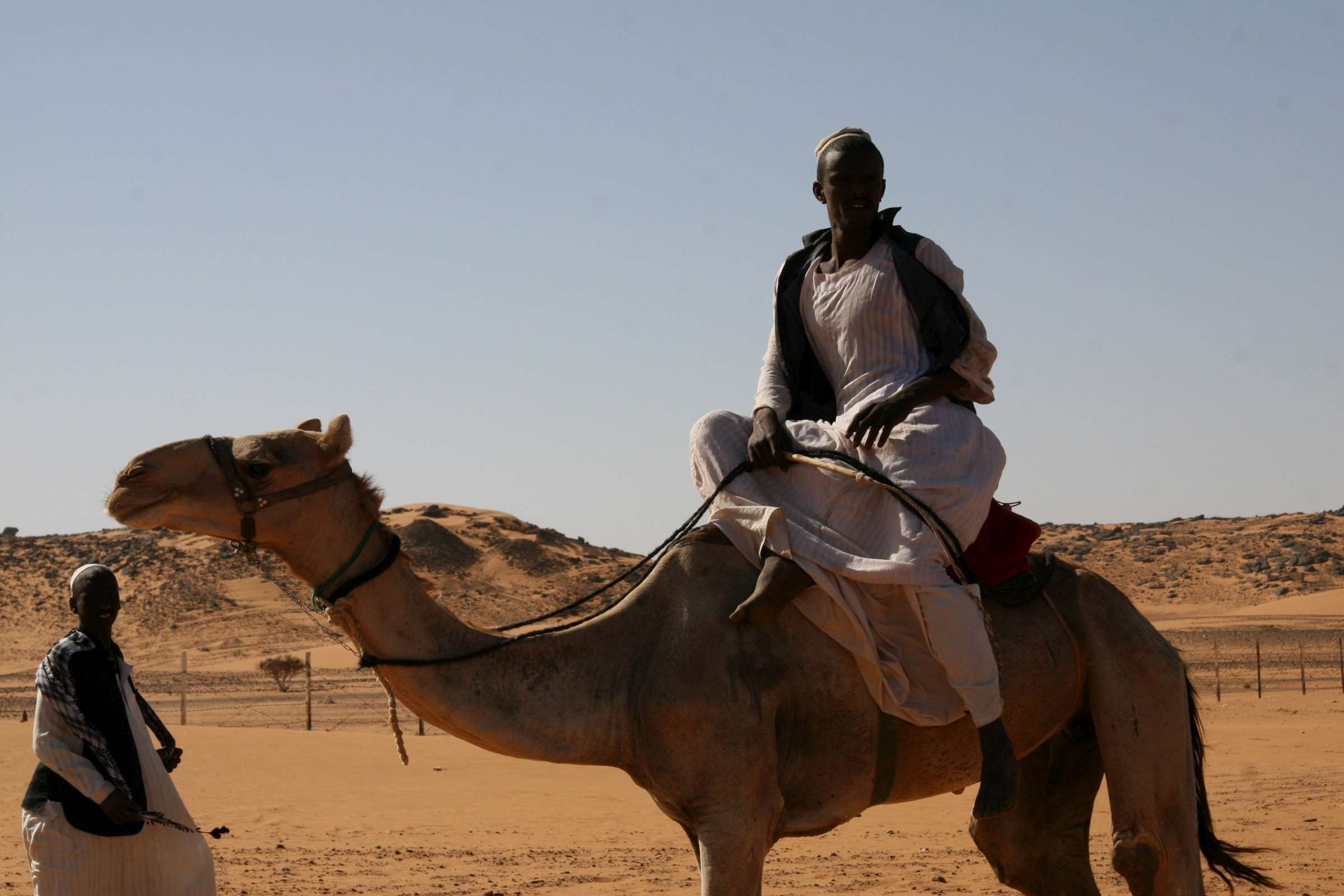 Camel driver